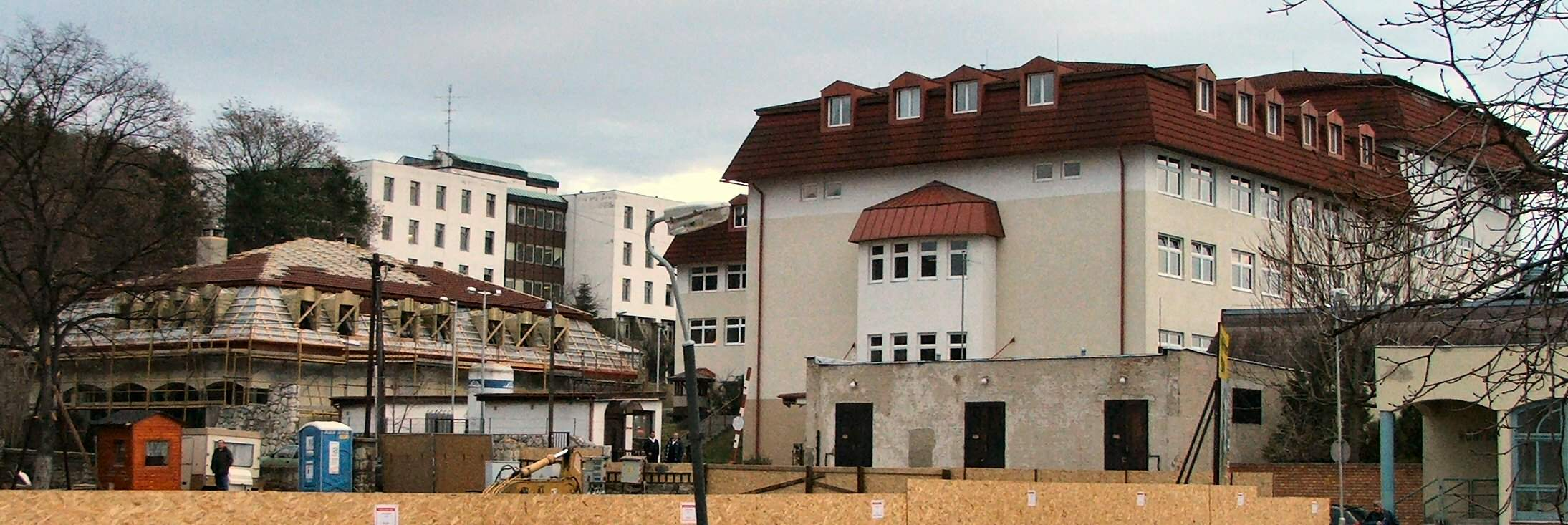 Buildings of the Vaszary Kolos Hospital in Esztergom, Hungary. The photo was cropped, because there is a construction site in the foreground.